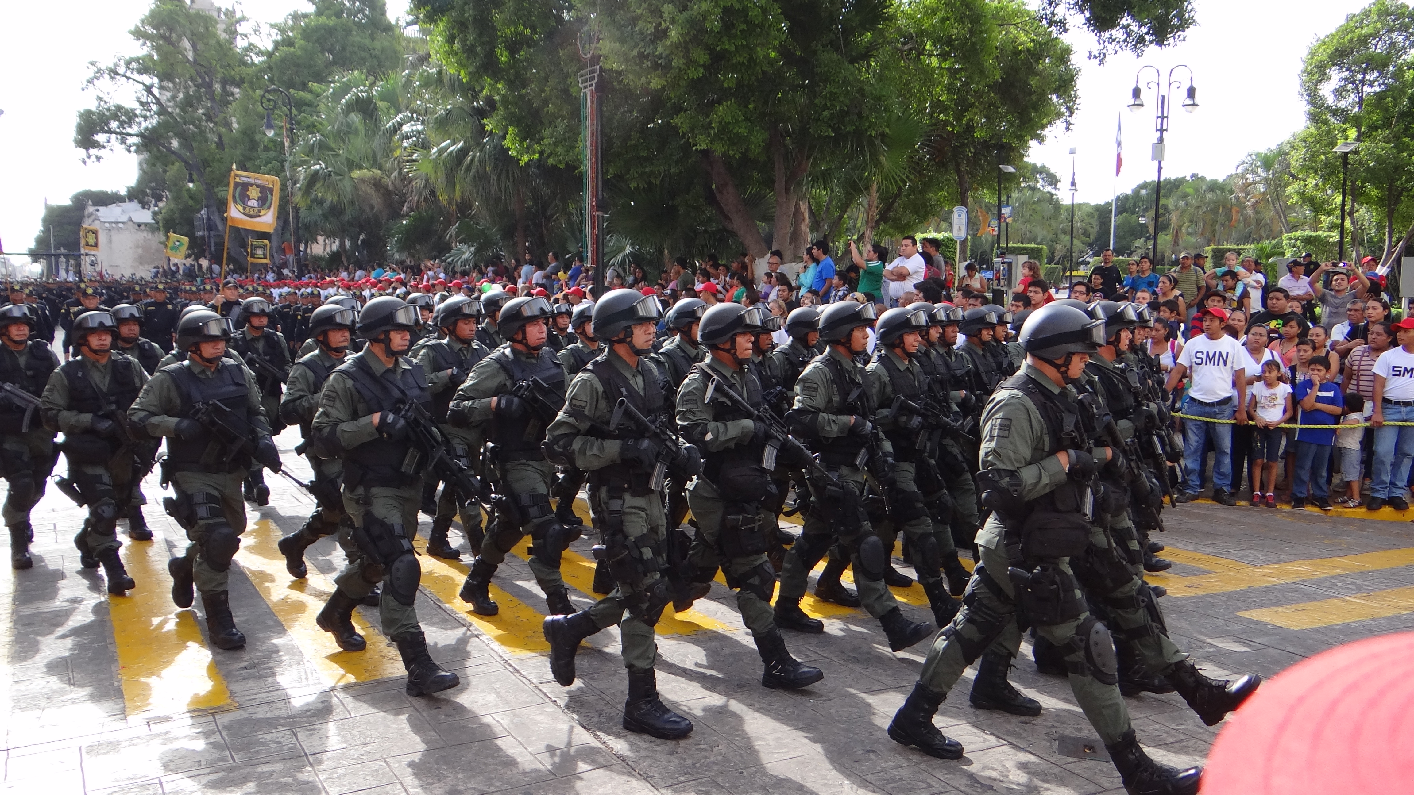 Yucatán State Police GOERA agents.